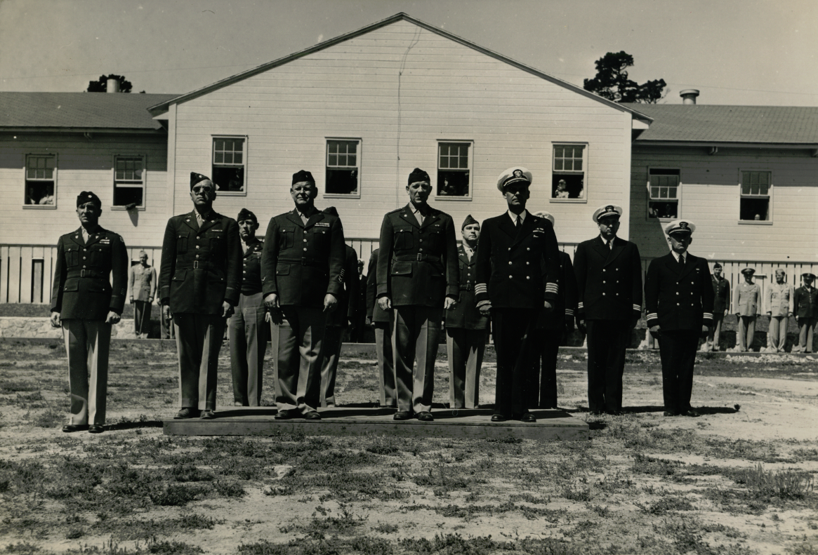 Senior Civil Affairs Staging Area (CASA) officers stand at attention in the Spring of 1945 at the Presidio of Monterey.